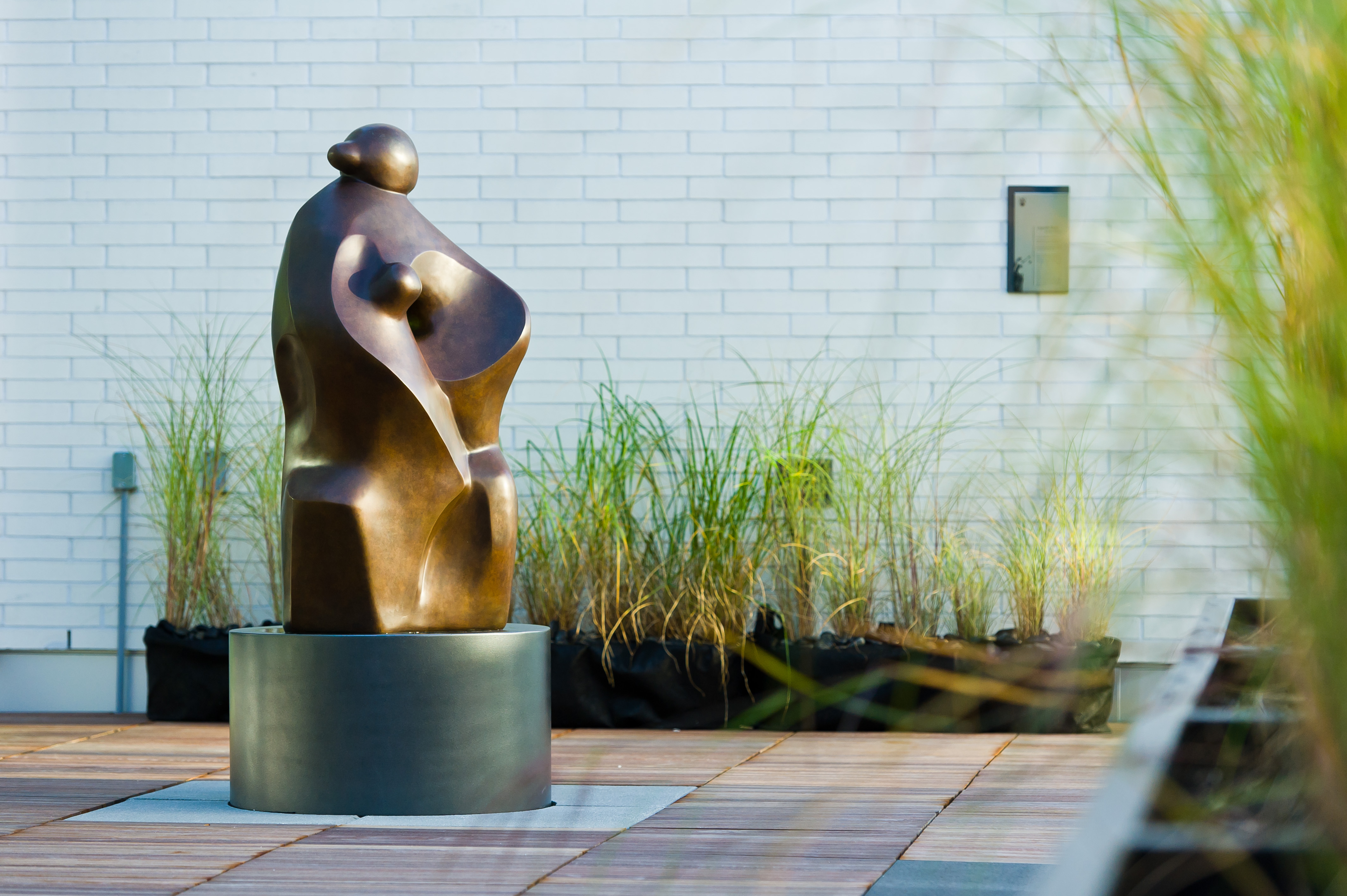 Photo Credit Don Erhardt: The Statue "Legends Begin" by Aboriginal Artist Allan Houser. The Statue was donated by Peter Allard and is on the 4th floor Terrace Lounge.